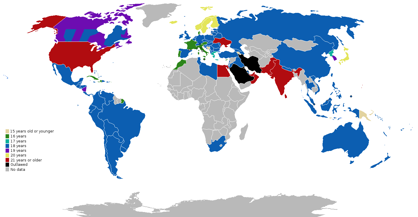 Map of the world showing the legal age for purchase of alcohol